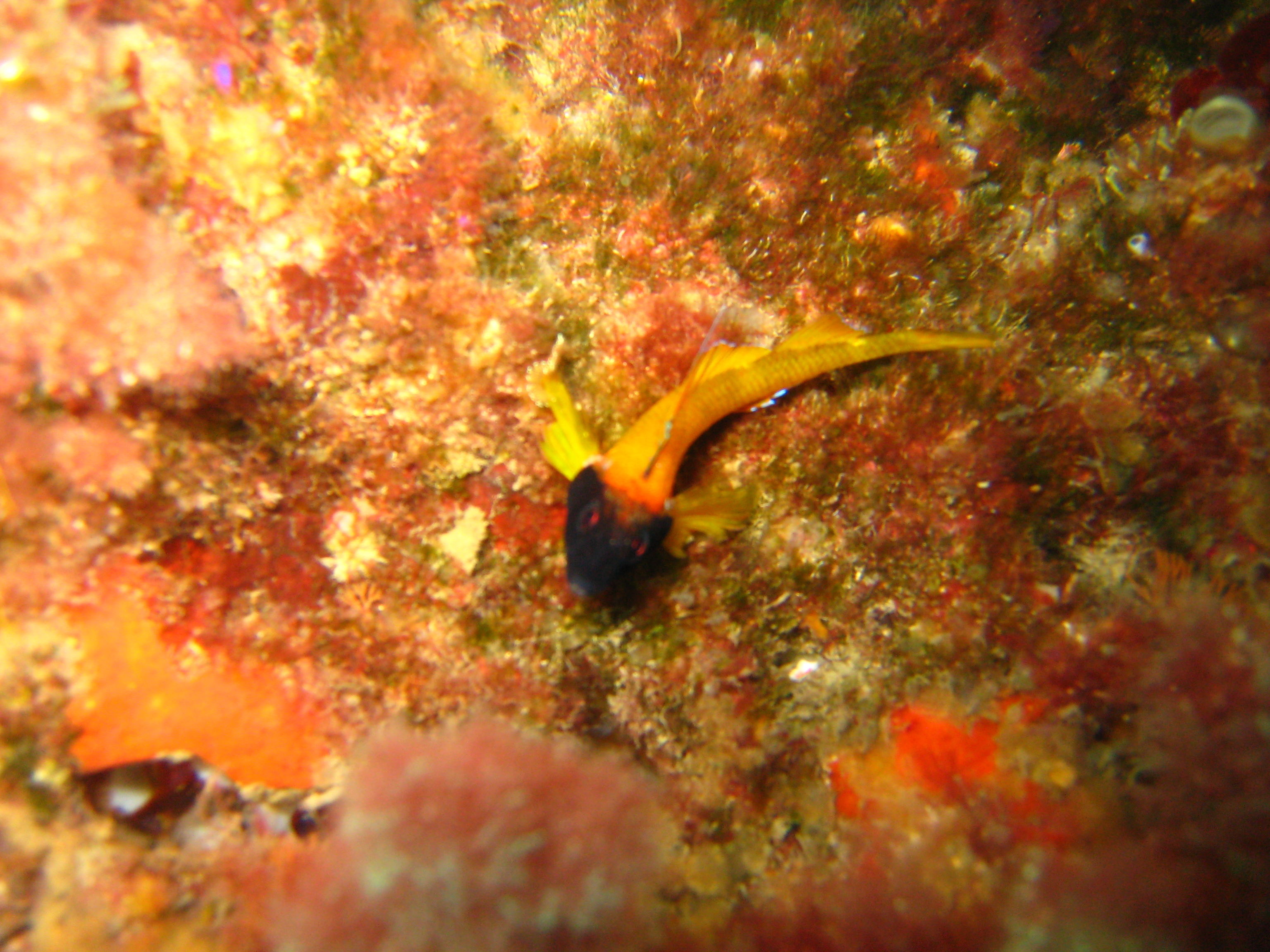 Male Tripterygion delaisi , picture taken in Niolon near Marseilles